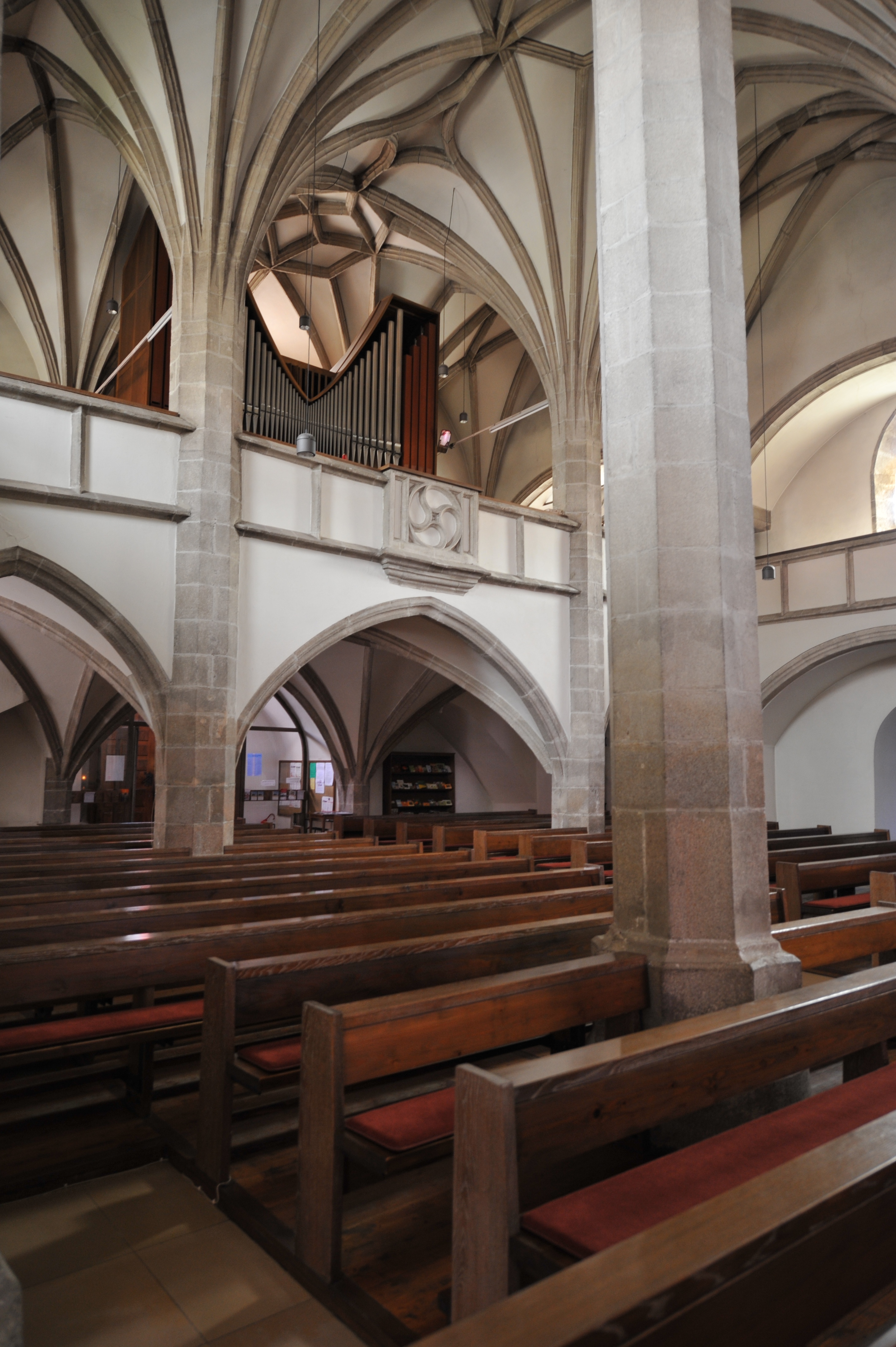 The making of this work was supported by Wikimedia Austria. For other files made with the support of Wikimedia Austria, please see the category Supported by Wikimedia Österreich. Perg Katholische Pfarrkirche Apostel Jakobus der Ältere